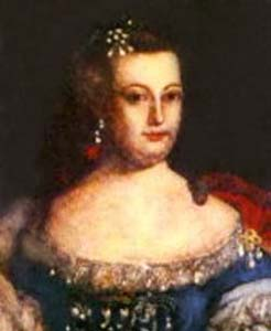 Mariana Victoria of Bourbon, wife of Joseph Ier, king of Portugal